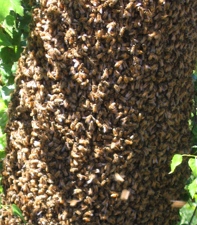 Photographer's comment: "It's anyone's guess where their hive was before the queen was visited by another queen and took this huge bunch of bees with them - they were clustering on my neighbor's tree. We called a bee keeper in Magnolia."